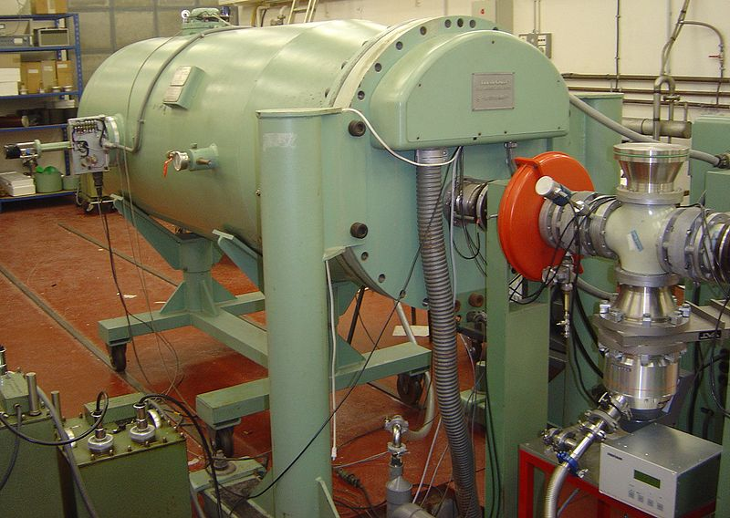 Image of a Van de Graaff generator integrated with a particle accelerator. This generates high fields (megavolt range) through which the ions are accelerated.